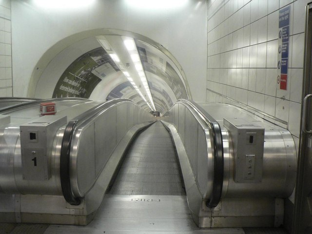 City of London: Bank Station – Waterloo & City Line travolator Since the Waterloo & City Line has no intermediate stations between its termini of Waterloo and Bank, there are times when the exit travolator from the platform is empty, as now. It is unlikely to be occupied for the next few minutes when the next train comes in, but was aswarm with activity just now.